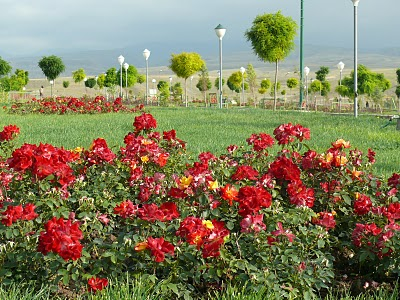 Gardens Daghlar baghi lahrud